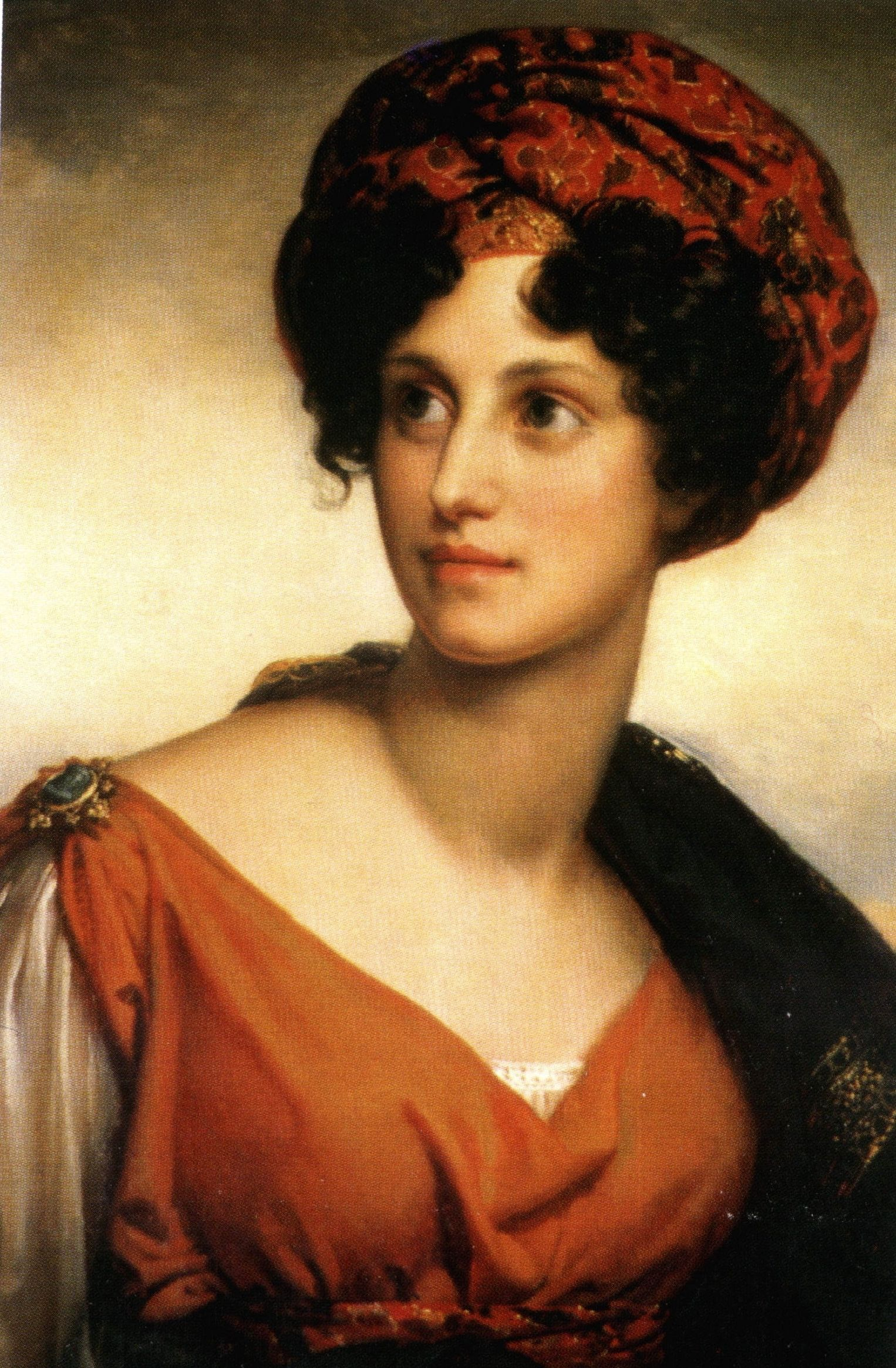 Portrait of Dorothea von Biron, Princess of Courland, Duchess of Dino, Talleyrand, and Sagan, known as Dorothée de Courlande or Dorothée de Dino or Dorothée de Talleyrand, painted by François Gérard, 1816